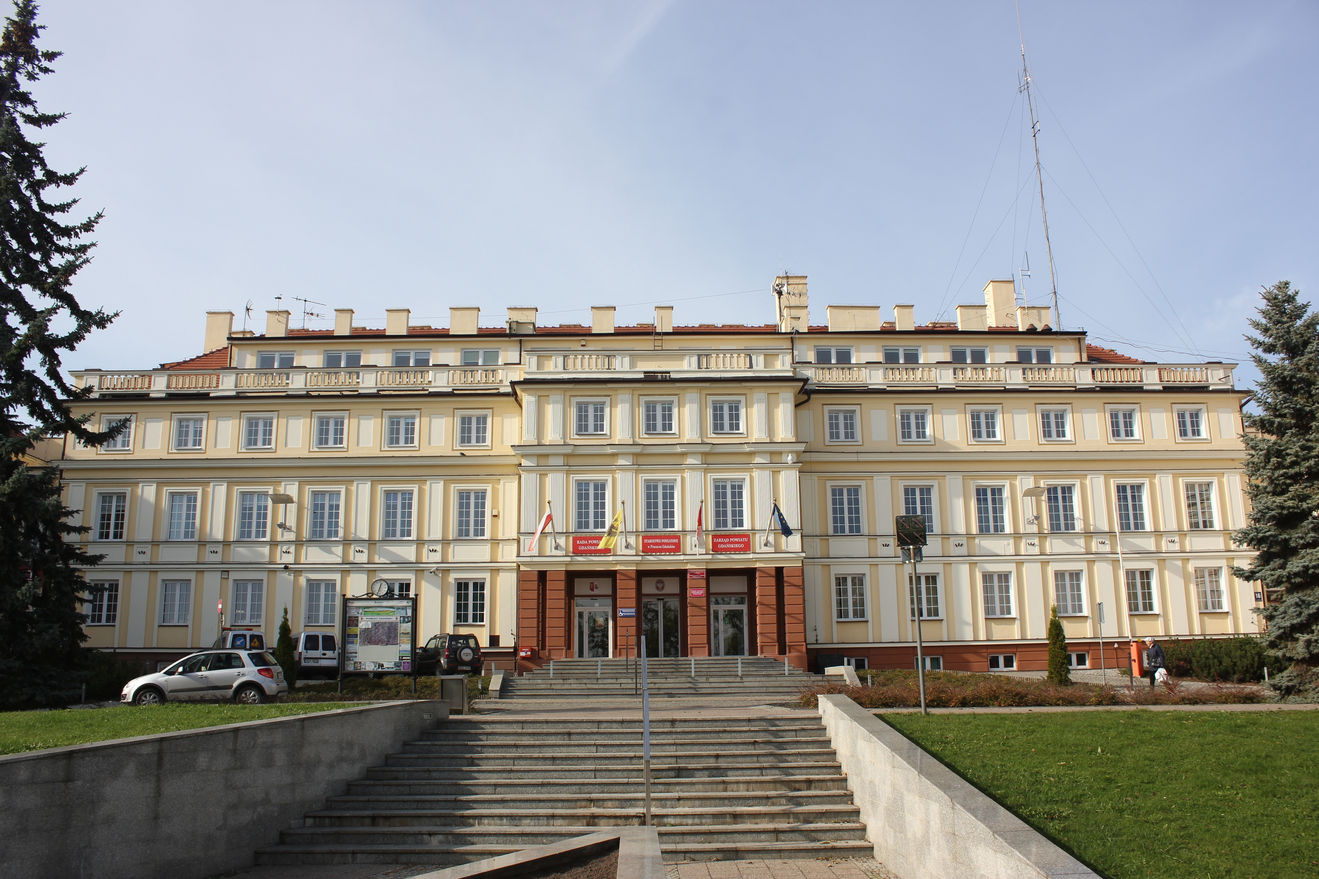 Pruszcz Gdański - powiat office